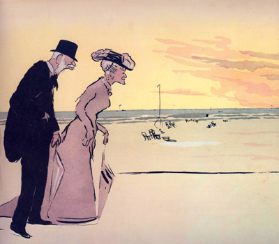 Baron and baroness Alphonse de Rothschild at the beach of Trouville